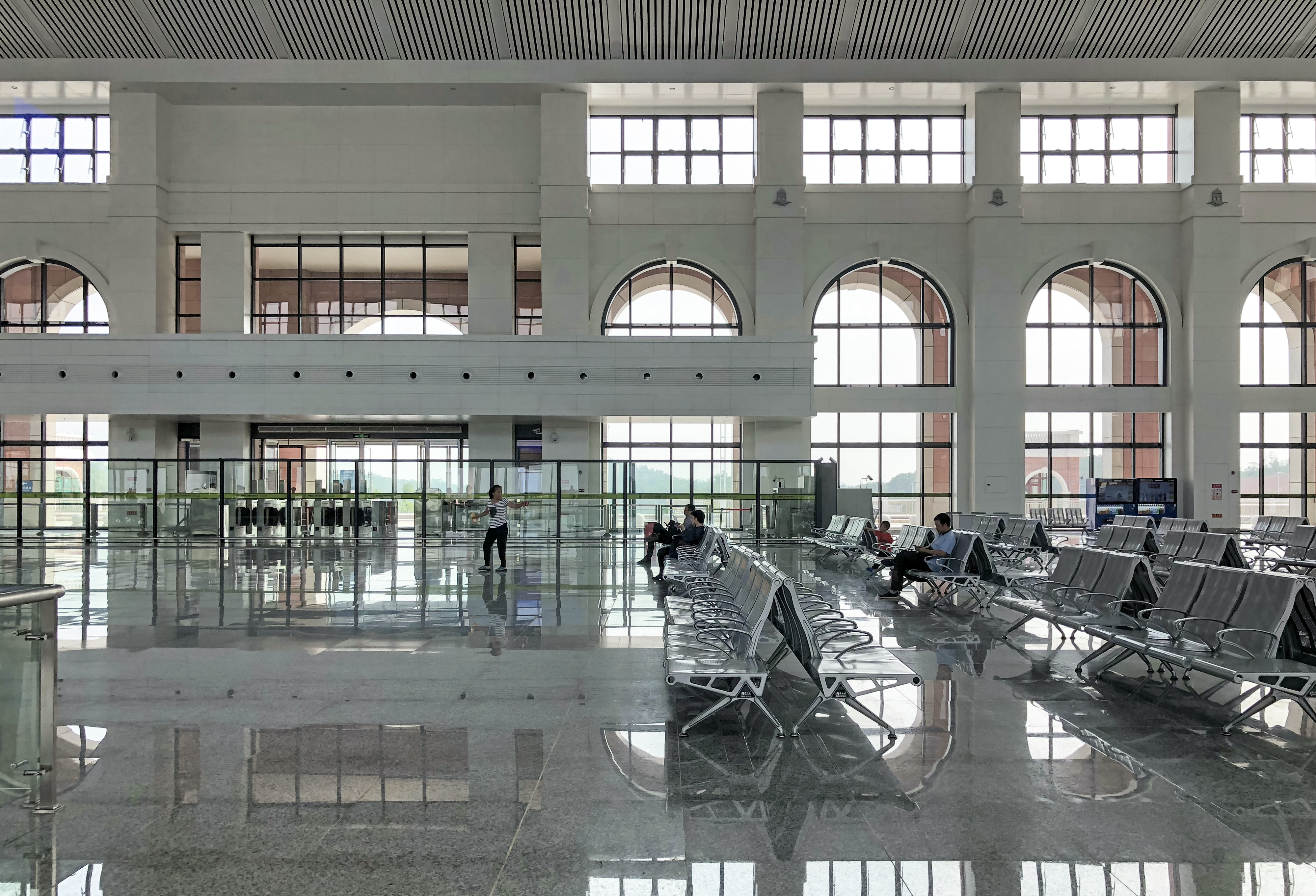 Rushed to buy ticket and pass the inspection, so no time to fool around.